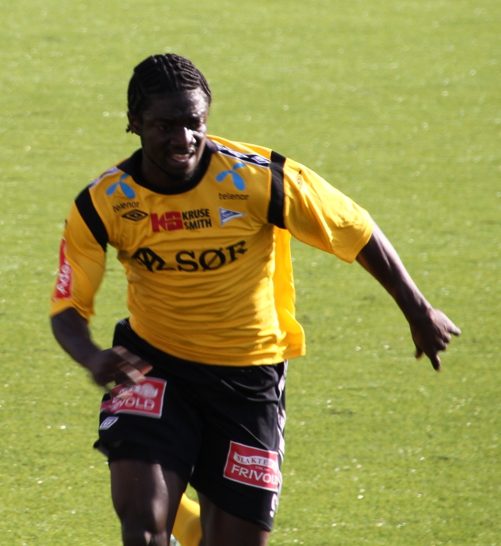 IK Start (Norway) player in match against Mjöndalen. May 20, 2012.